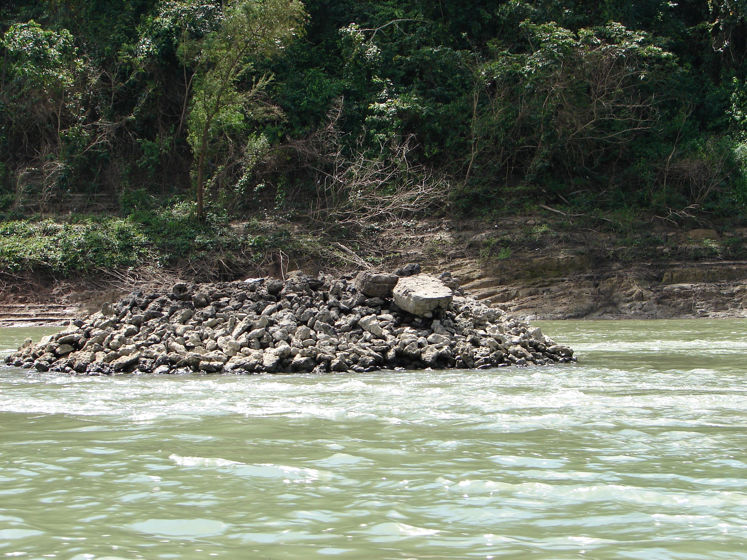 The pile in the Usumacinta River by Yaxchilan which archeologist have speculated could have been part of a suspension bridge.